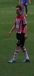 Stefan Scougall playing for Sheffield United against Wolves on 22 March 2014.